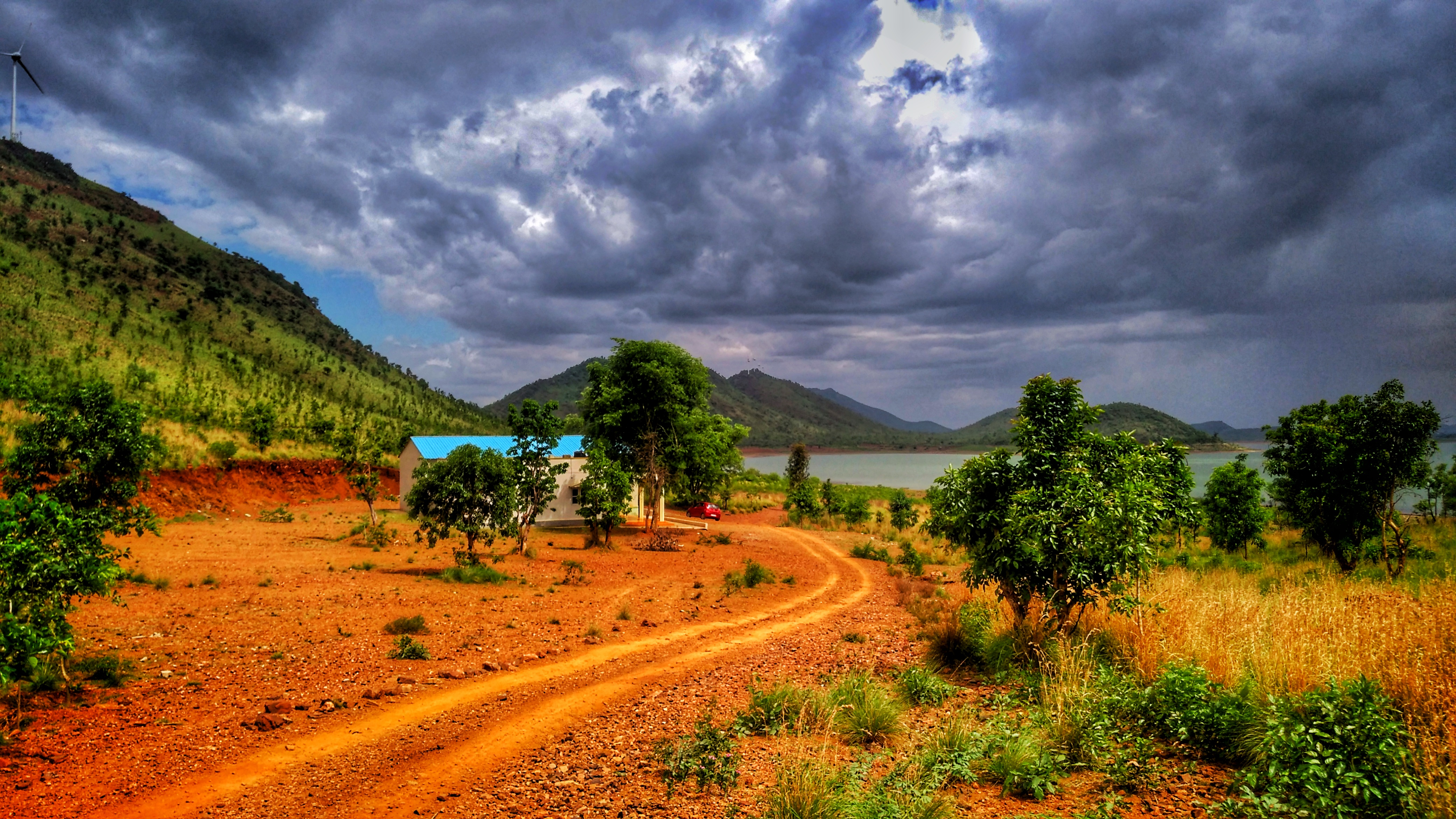 this image is a from a hidden place in Karnataka konwn as HIRIYUR... it's around 140 km from Bangalore and u have to take pune highway to reach there...this place is famous for Vani vilas sagar dam which if viewed from top is in the shape of India...This pic is taken while going to a place where u can do boating..while on the way u can see the huge windmills and how beautiful yhe scenery is.u can even to fishing at this place...a must visit place atleast once.